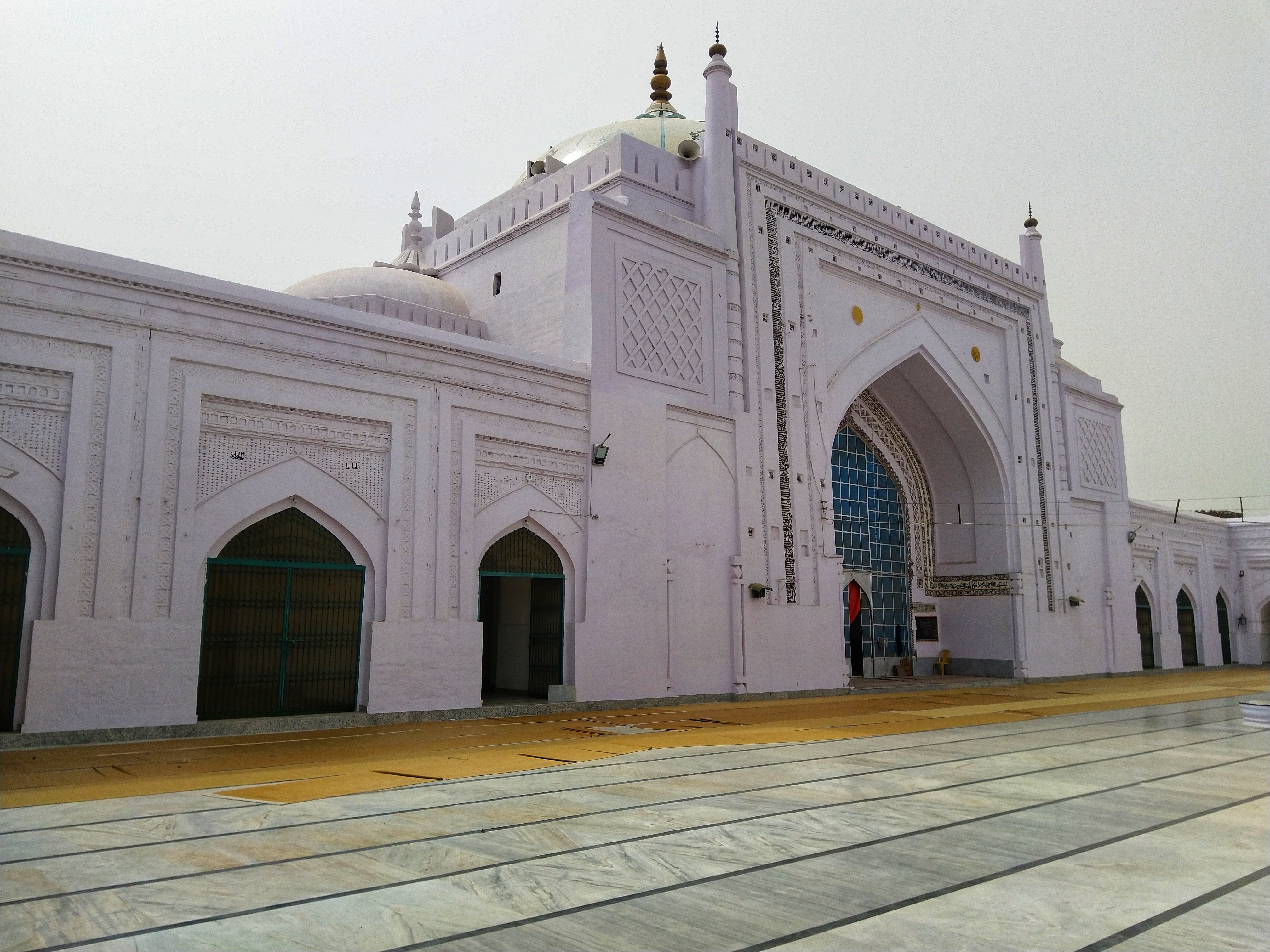 This is one of the oldest and largest mosques of India. Situated in Badaun district Uttar Pradesh. It was the largest mosque of India before the development of Jama Masjid, Delhi. It is said to have the largest dome.